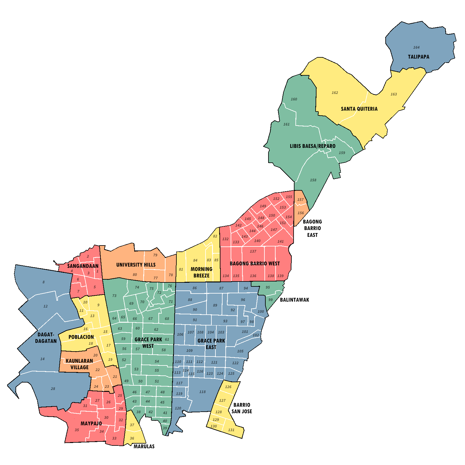 South Caloocan Barangay Map with Area Names